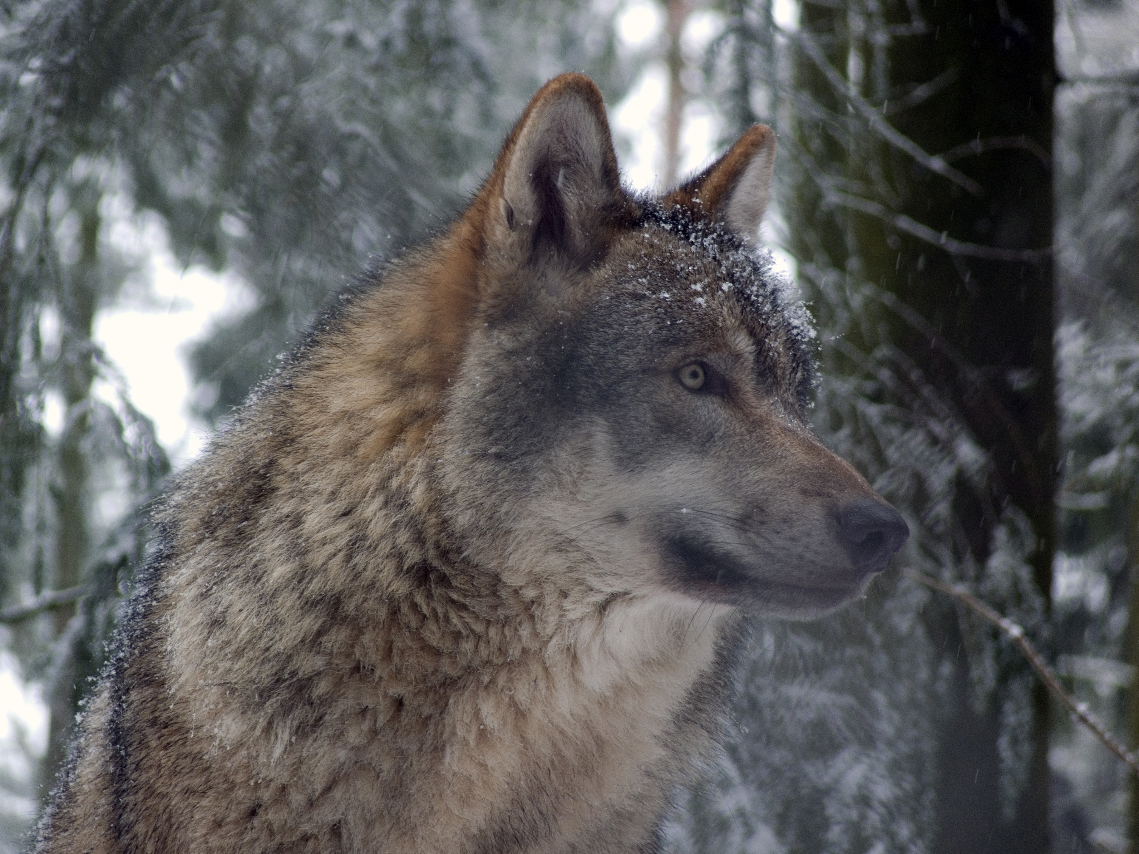 Eurasian wolf (Canis lupus lupus)